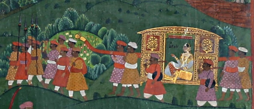 Mah Laqa Bai on a hunting journey with Nizam II of Hyderabad state